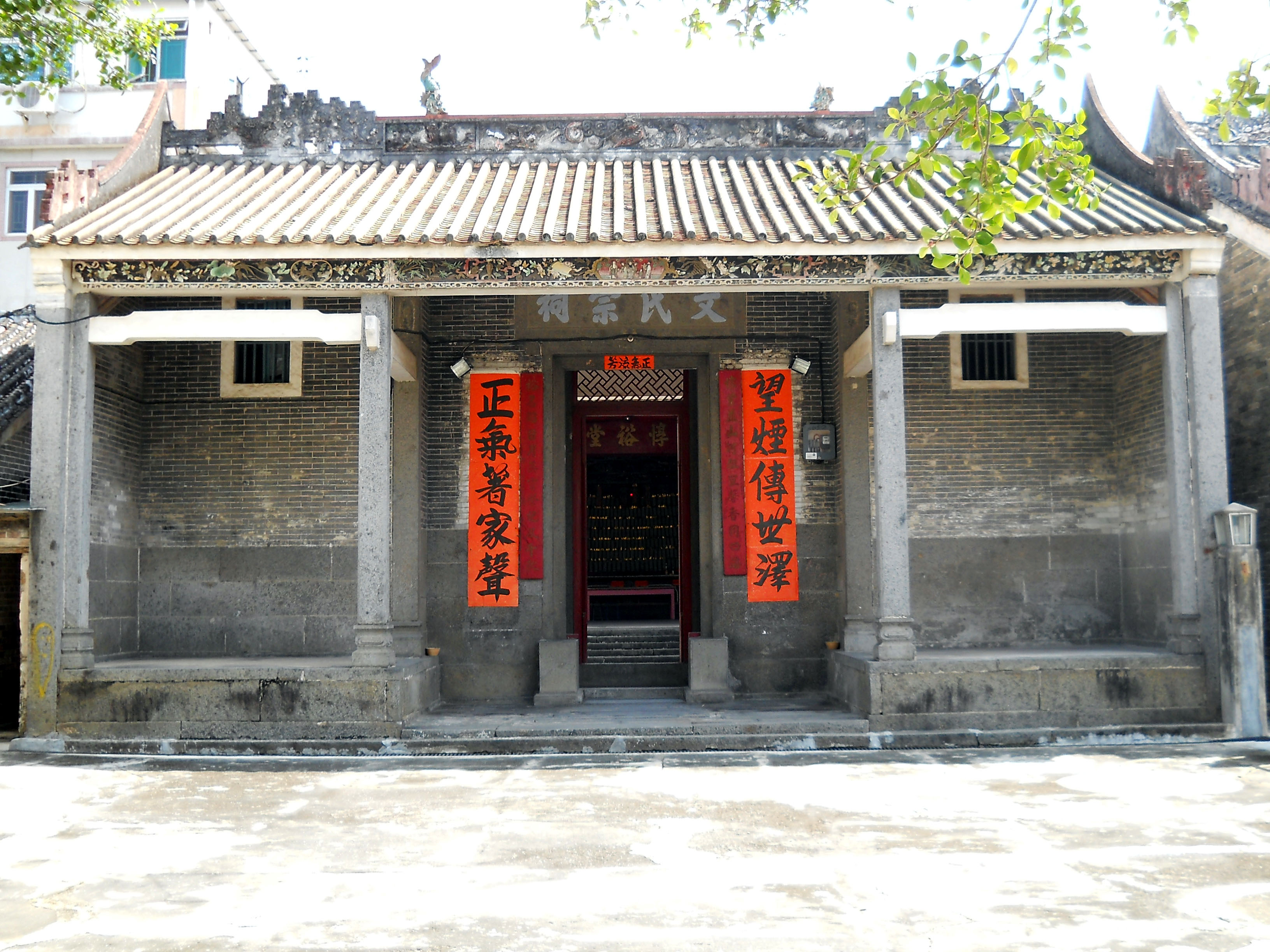 中文（香港）: 惇裕堂文氏宗祠 Man Ancestral Hall, Fan Tin Tsuen, San Tin, Yuen Long, N.T